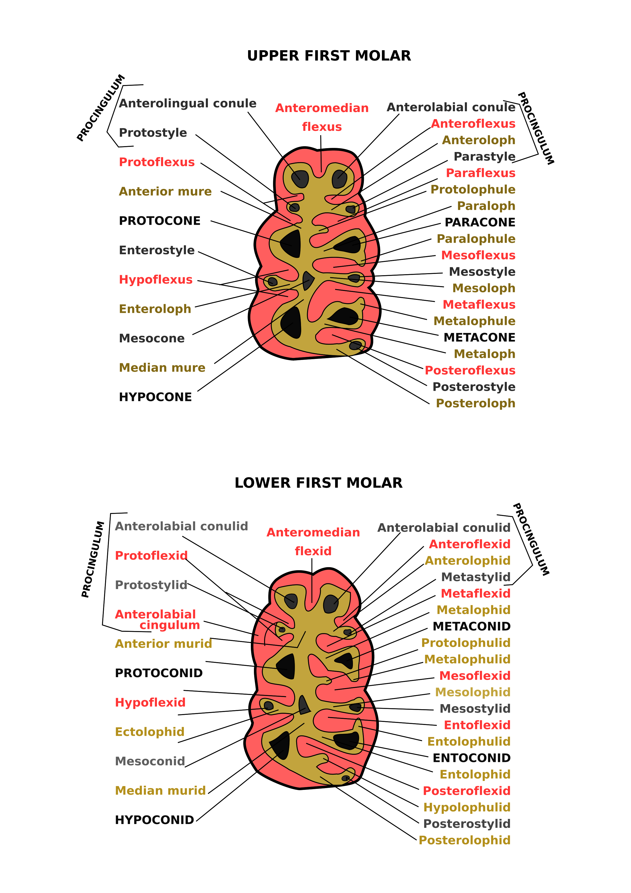 Cricetidae molar teeth nomenclature after Reig, O.A. 1977. A proposed unified nomenclature for the enamelled components of the molar teeth of the Cricetidae (Rodentia). Journal of Zoology, London 181:227–241., fig. 3